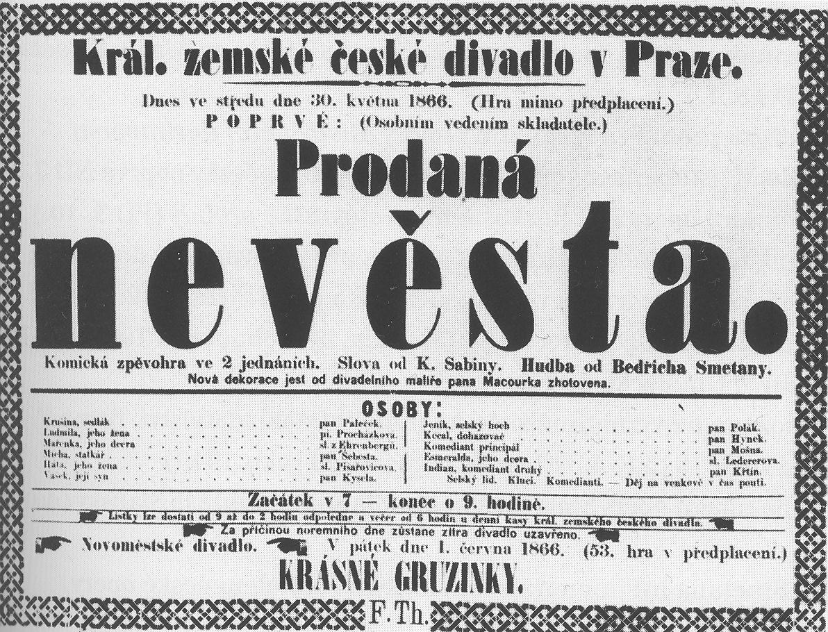 Theater poster for the world premiere of Smetana's The Bartered Bride (1866)